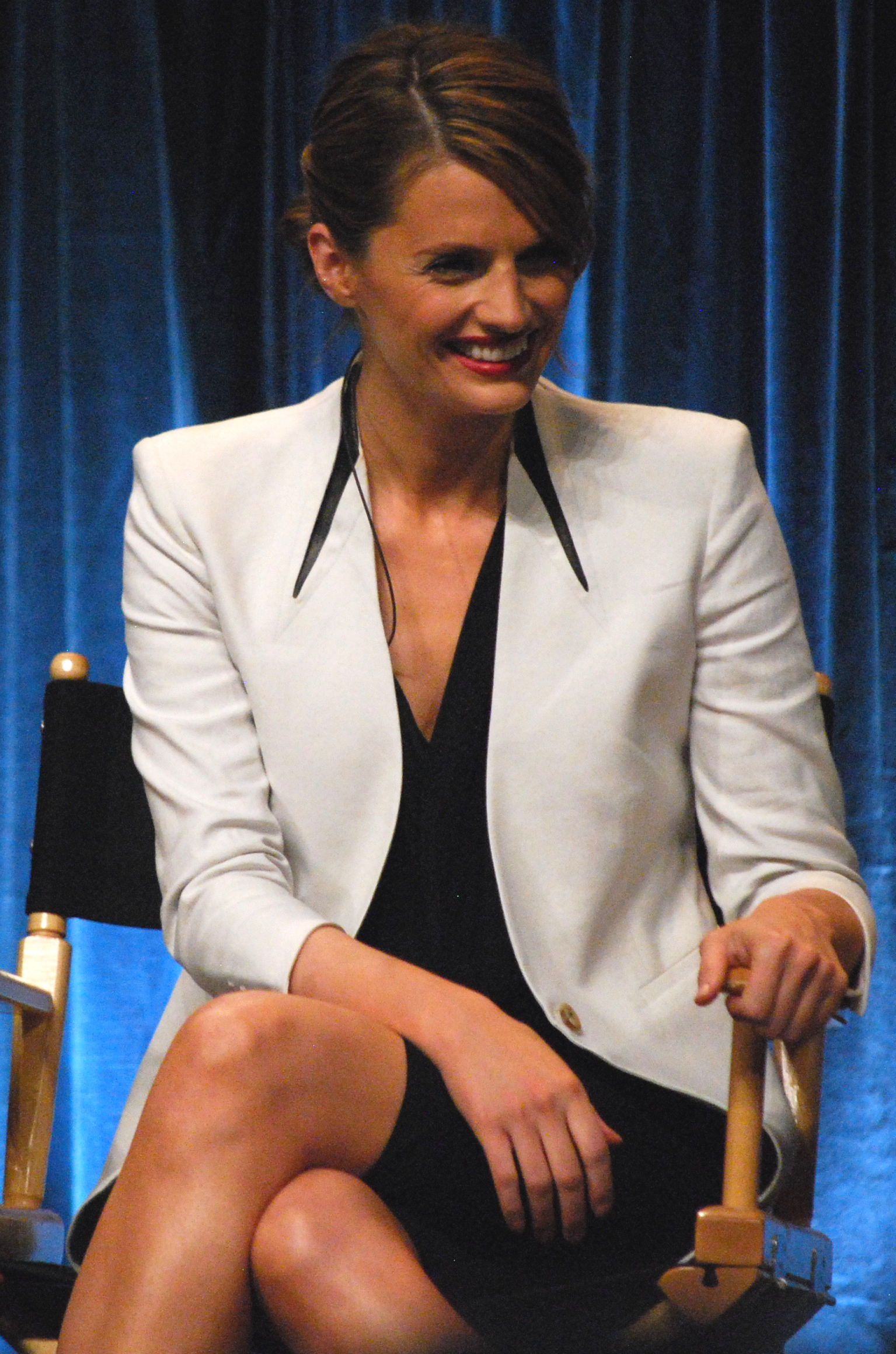 Stana Katic at Paleyfest March 9, 2012